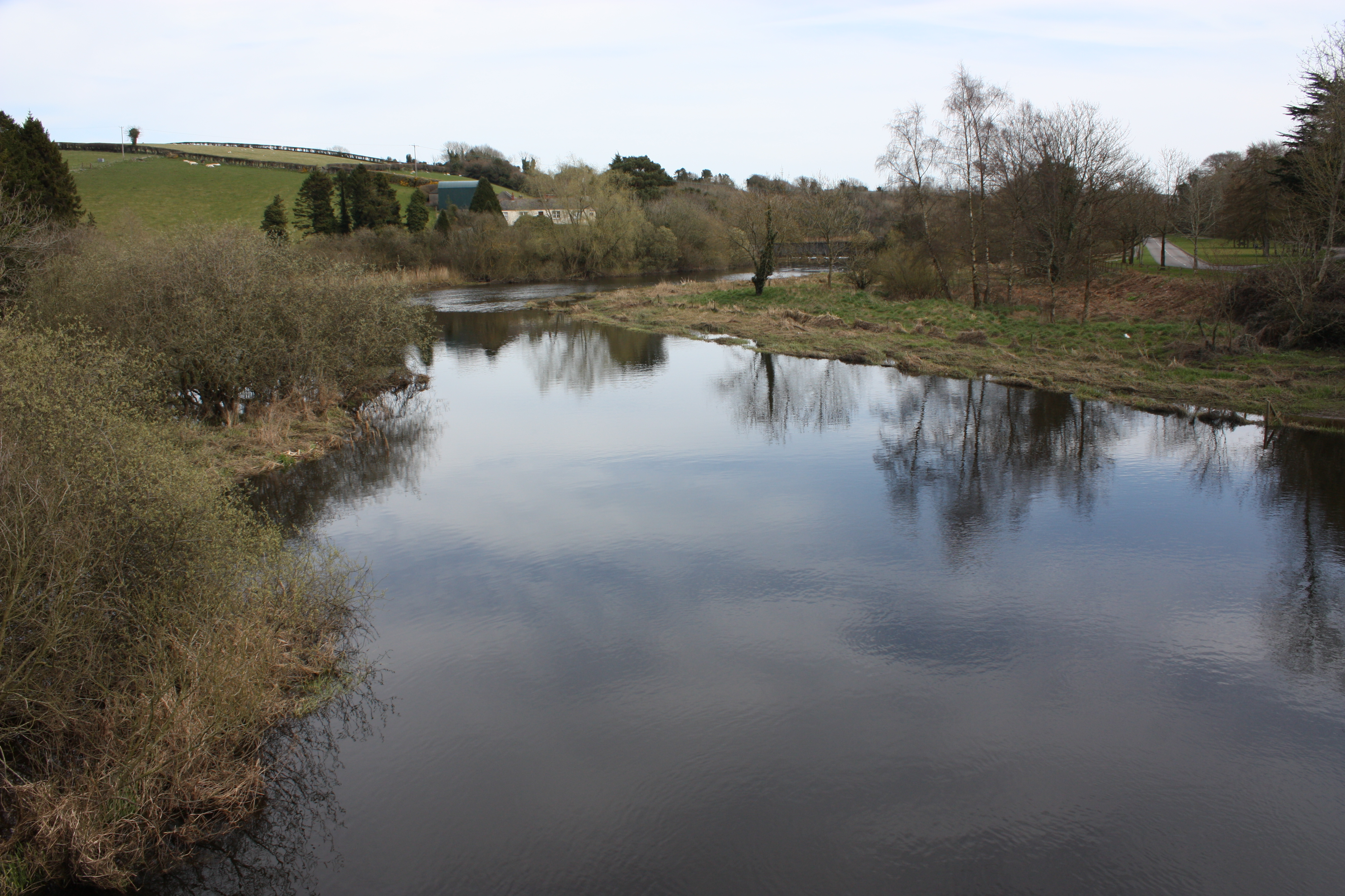 River Quoile, Downpatrick, County Down, Northern Ireland, April 2010 (viewed from Quoile Bridge looking in Saul direction)